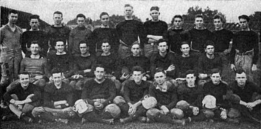 Photograph of Throop College of Technology (Cal Tech) football team, c. 1917 (head coach Andrew W. Smith in back row at left)